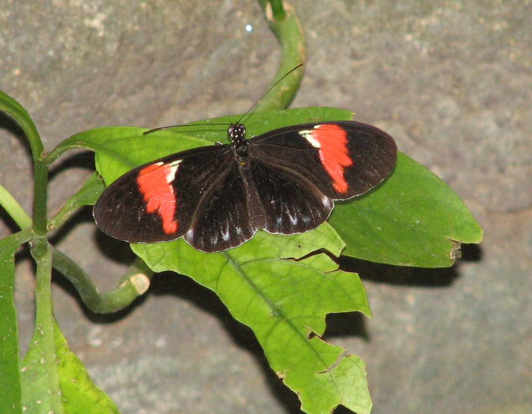 Passion Flower Butterly (Heliconius melpomene intergrades)